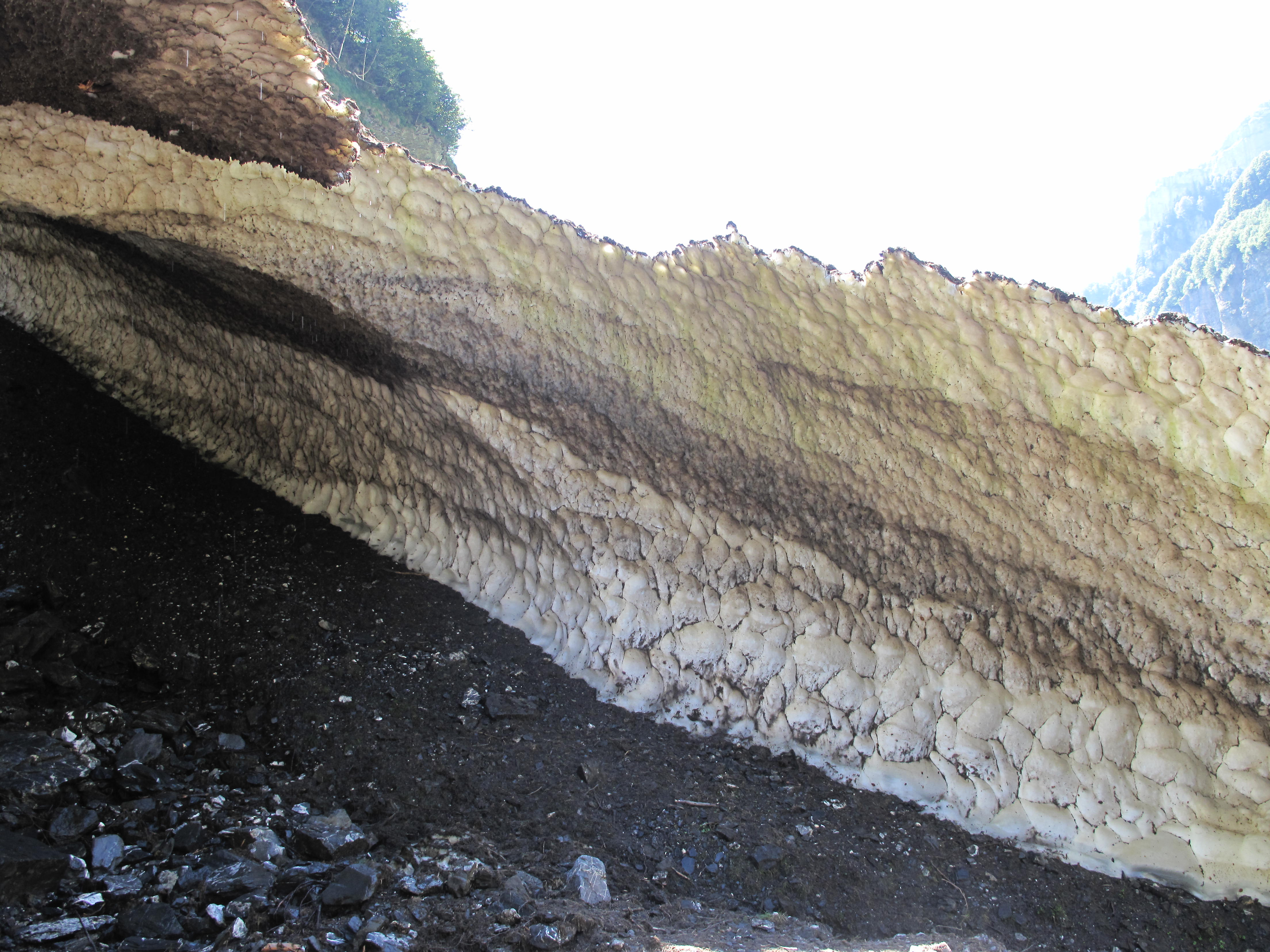 Neve #1 in the valley of le fond de la Combe on the way to the cirque du Bout du Monde (Haute-Savoie, France).